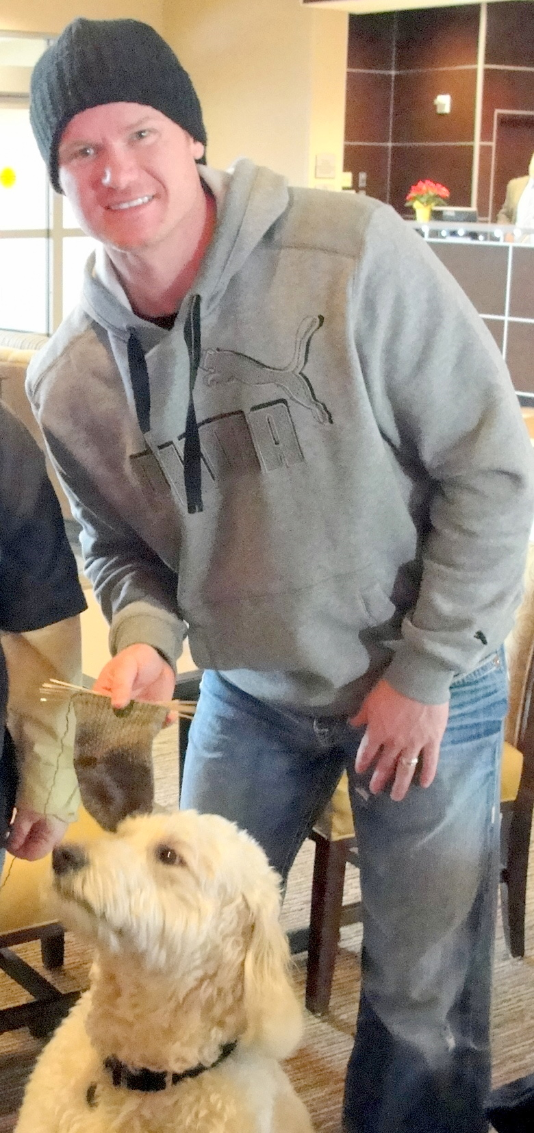 Pittsburgh Penguins forward Jason Williams and his dog, Harley. Williams is holding the sock that is knitted during games by Pens fan "the knitting lady".